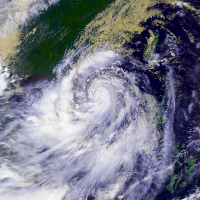 Typhoon Wayne on September 4 at approximately 0646 UTC. This image was produced from data from NOAA-9, provided by NOAA.